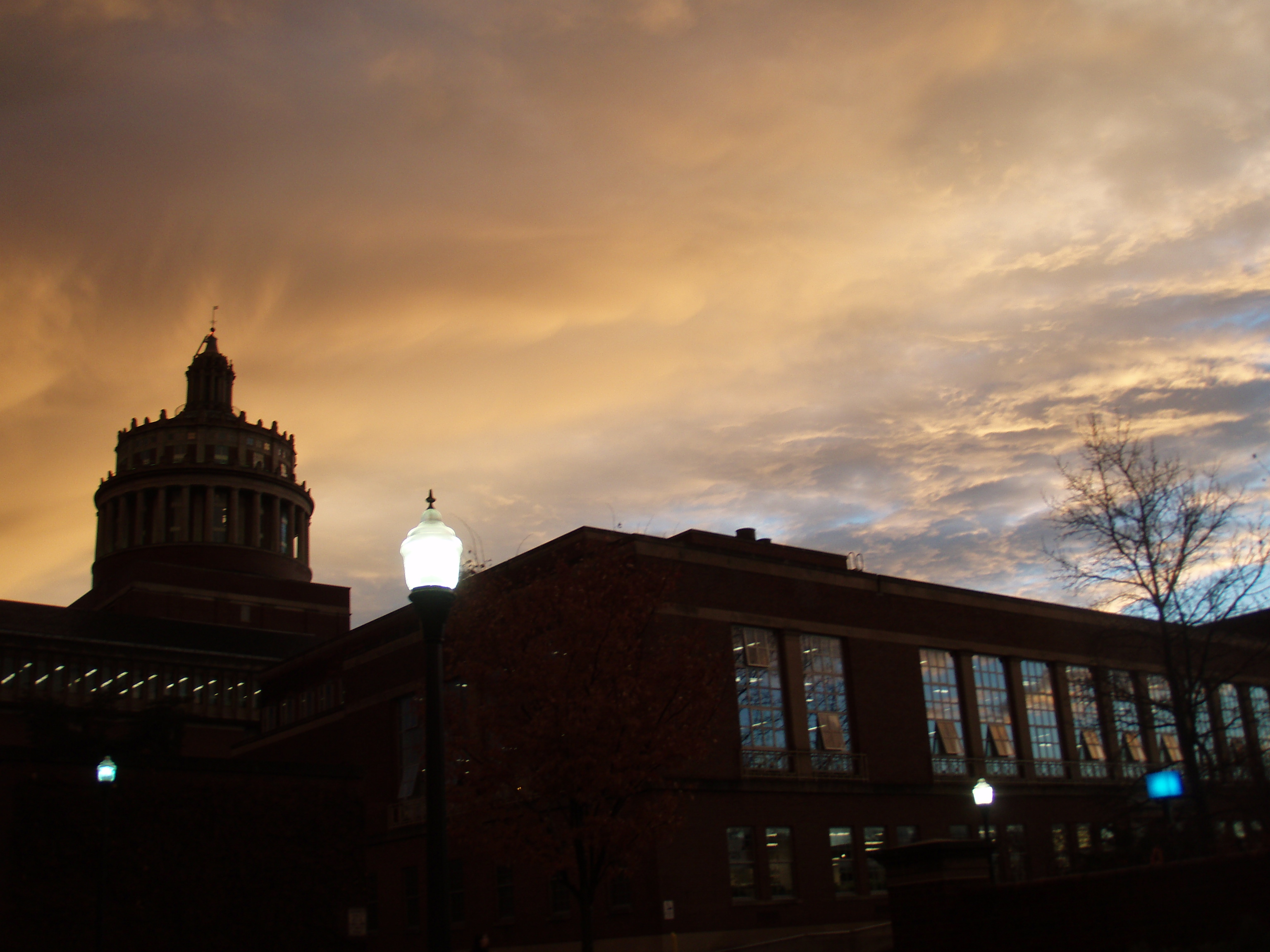 Rush Rhees library and the Fredrick Douglas building at the University of Rochester river campus.